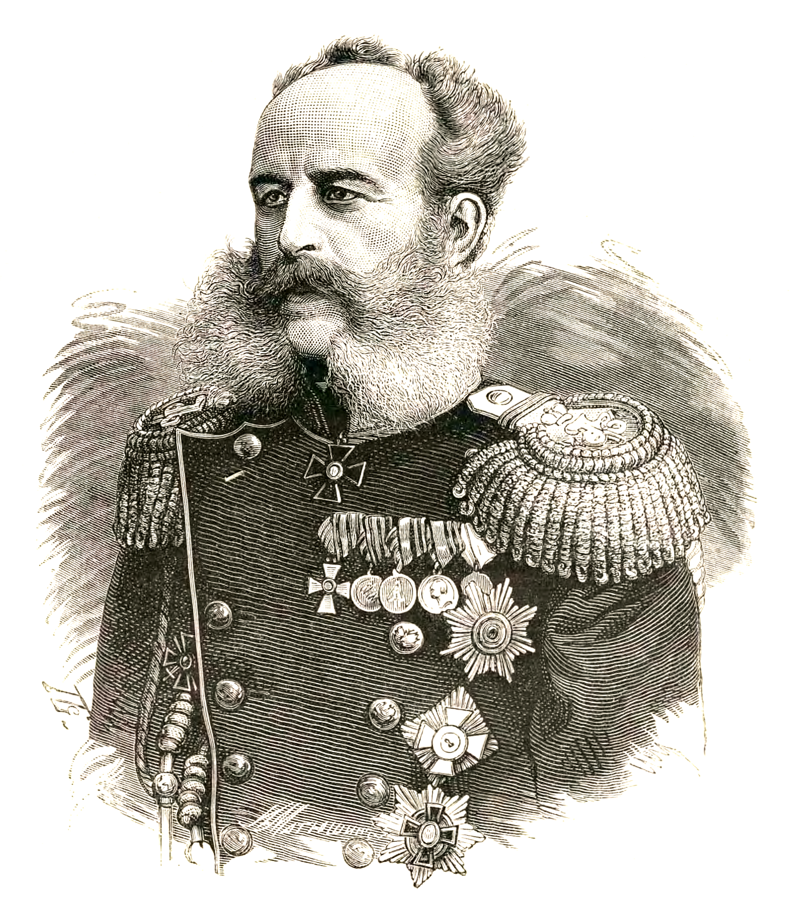 Svyatopolk-Mirsky Nikolay Ivanovich by Borel